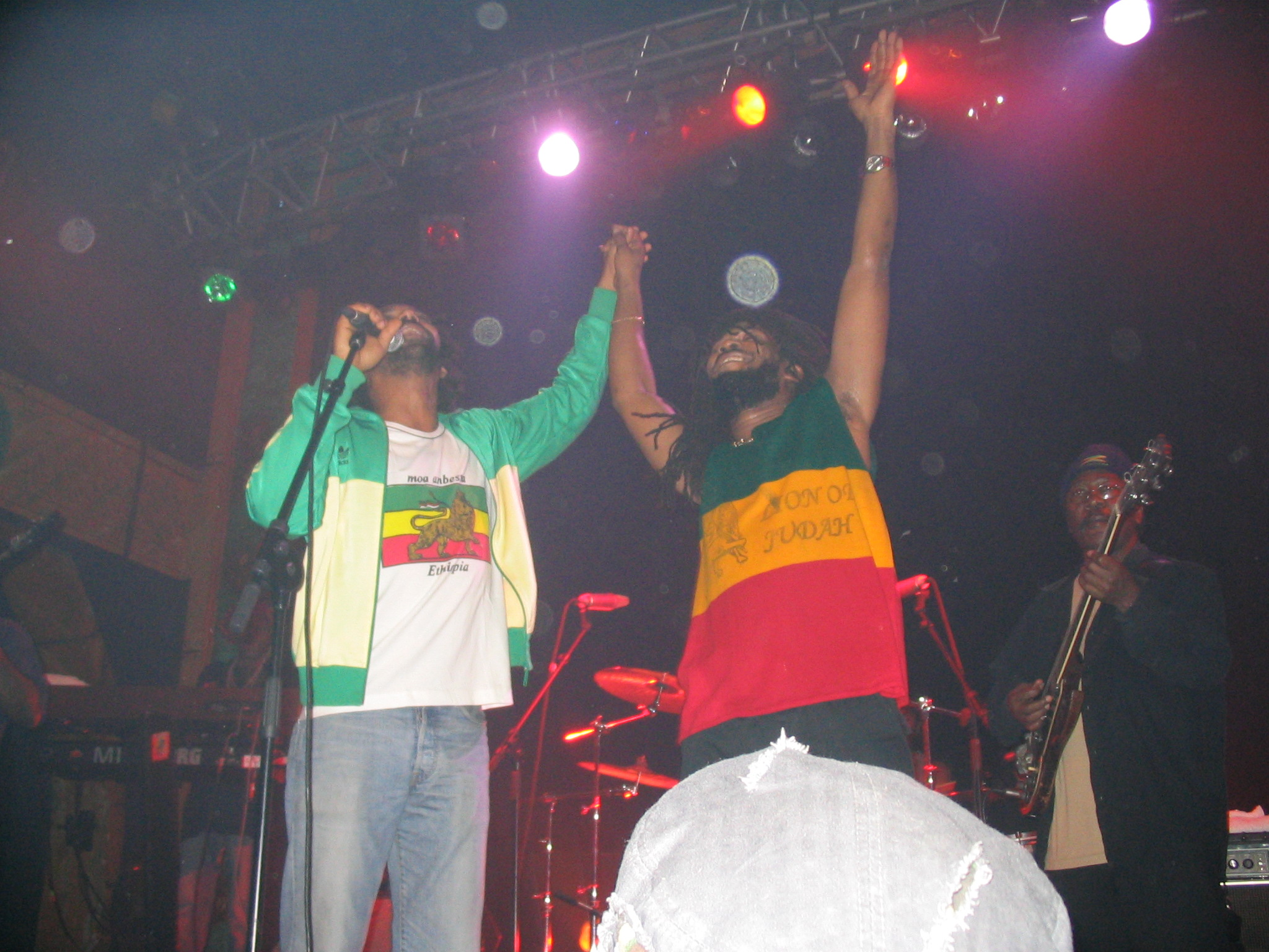 The reggae band Gladiators in concert in Rockstore, Montpellier, France, 11/20/06